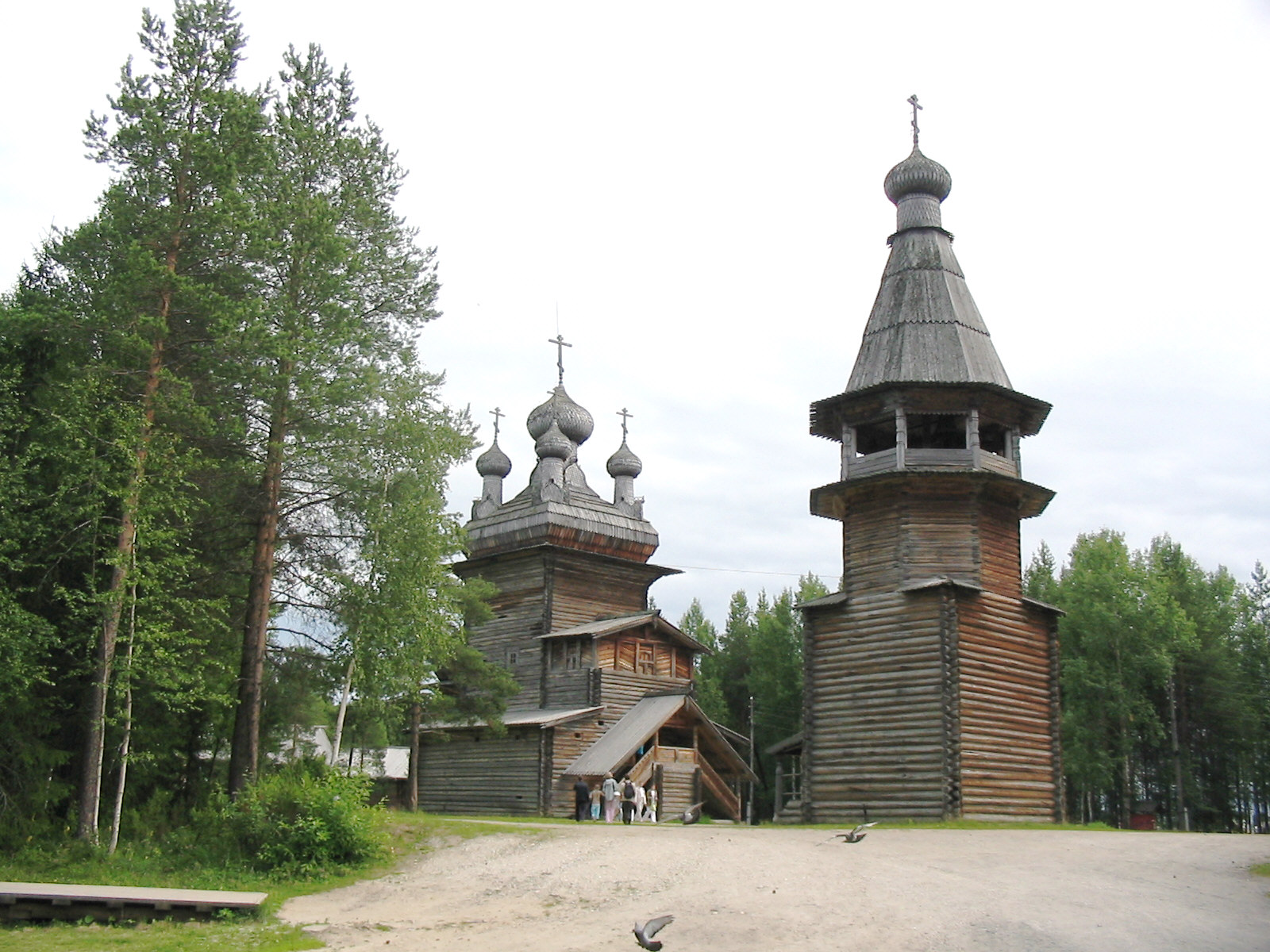 Malye Korely State Museum of Wooden Architecture (Малые Карелы) near Arkhangelsk, Russia. Church of the Ascension from the village of Kushereka, built in 1854.